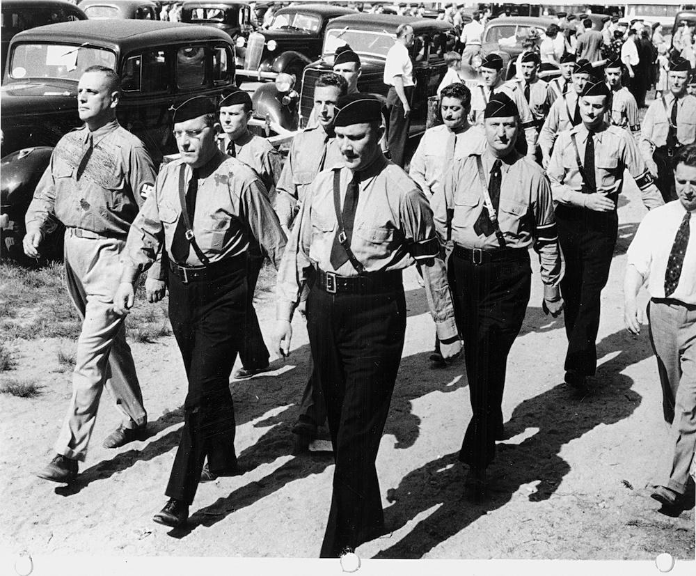 Anastasy Vonsyatsky marching with the German American Bund, 1939. In 1936, under orders from President Roosevelt and Secretary of State Cordell Hull, FBI opened extensive investigations of fascist groups. These were conducted under the newly passed Foreign Agents Registration Act, and with substantial results. Through close counterespionage work, FBI uncovered 50 Nazi spies operating in America before the U.S. ever entered the war. Among them was Anastasy A. Vonsyatsky, a naturalized American citizen residing in Connecticut and former leader of the Russian Revolutionary Party. Vonsiatsky Espionage